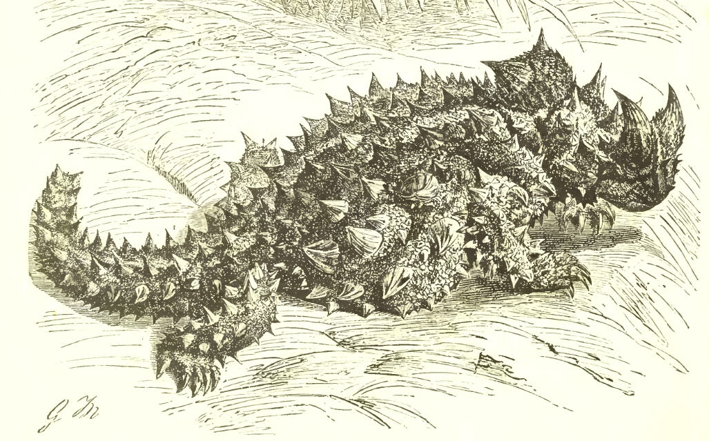 Illustration of a Reptilia species, Moloch horridus, commonly referred to as the Thorny Devil.